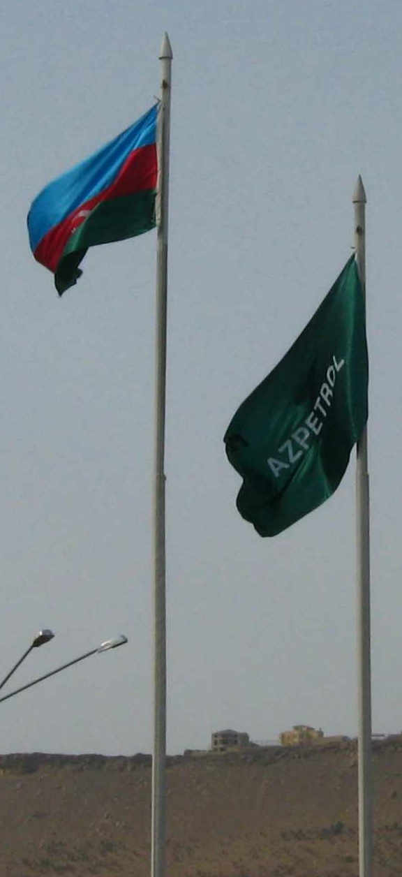 The flags of Azerbaijan and Azpetrol company at an Azpetrol gas filling station. Close to Baku